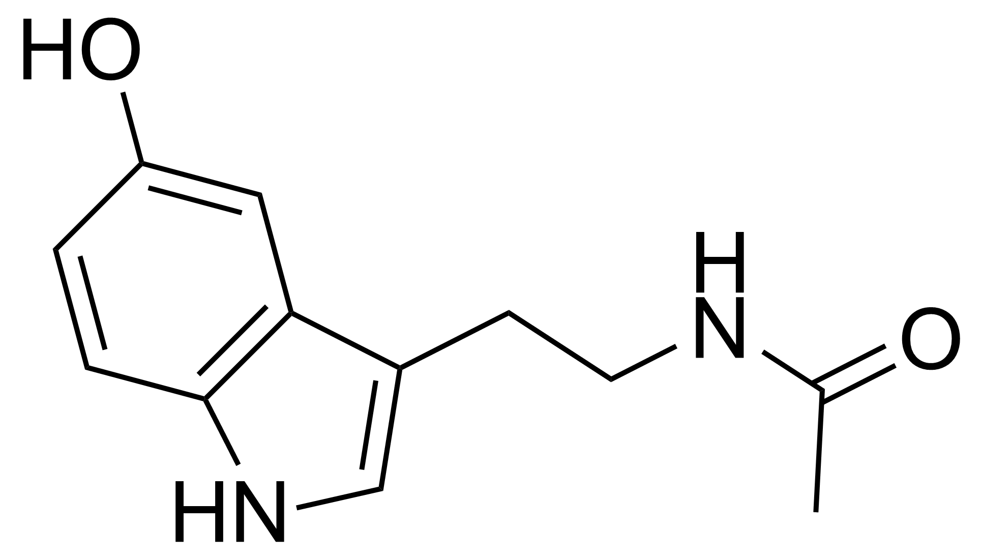 Structure of N-acetylserotonin